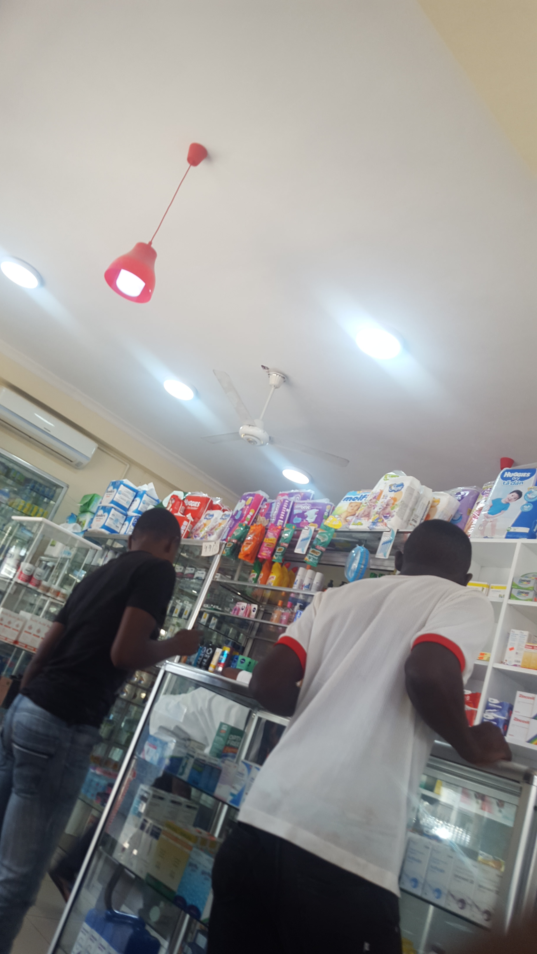 Pharmacist providing medical services to their clients This is an image of "African people at work" from Tanzania